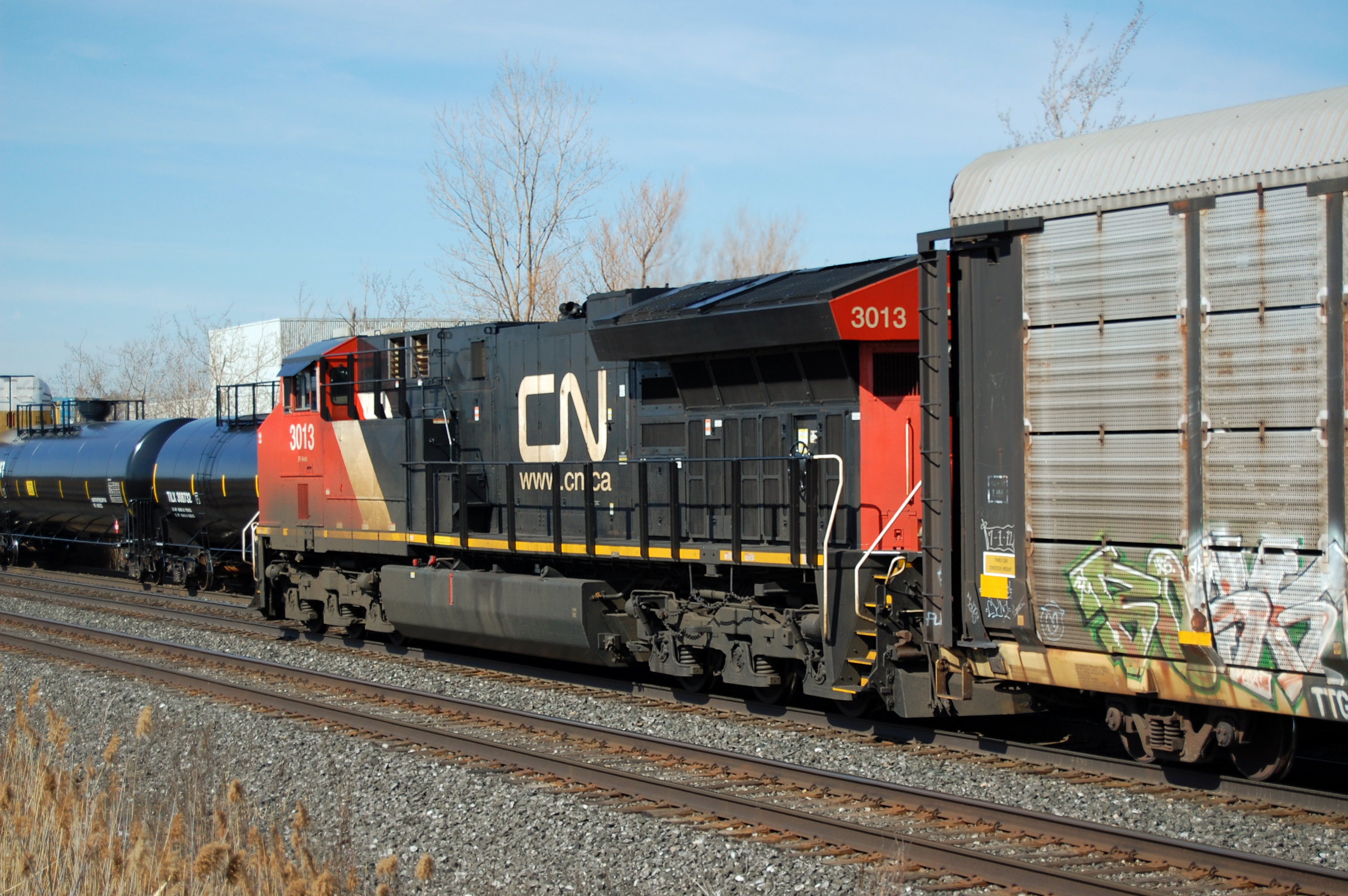 CN 3013 (GE ET44AC) at the head of a westbound freight train in Brampton, Ontario